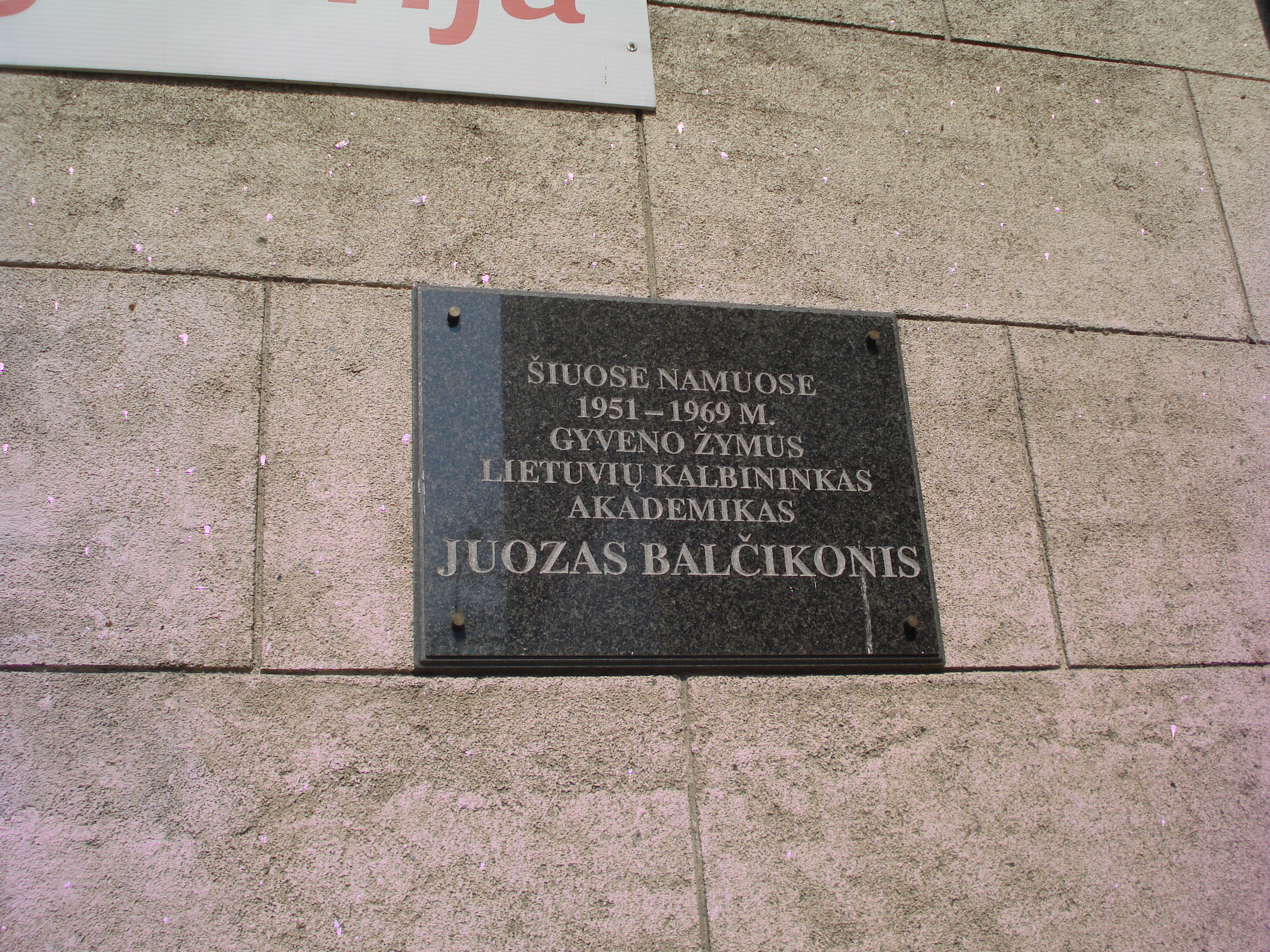 Memorial tablet in memory of Juozas Balčikonis (1885-1969), Lithuanian Lithuanian linguist and teacher. Vilnius, Tumo-Vaižganto street / Lukiškių streetLietuvių: Memorialinė lenta Juozui Balčikoniui (1885–1969) atminti. Vilnius, Mokslininkų namas (J. Tumo-Vaižganto g. 9)